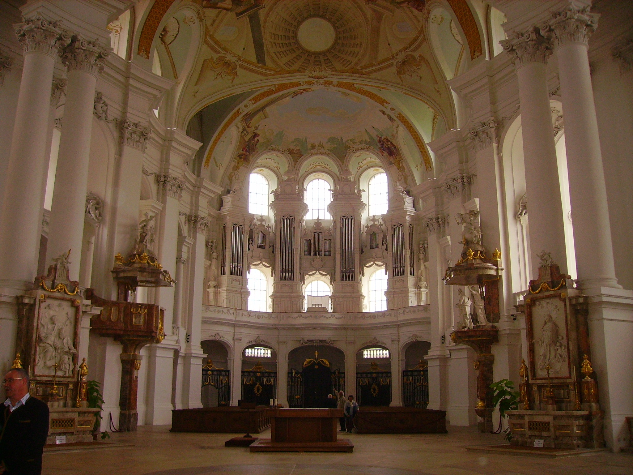 Nave of Neresheim Abbey Church, Neresheim